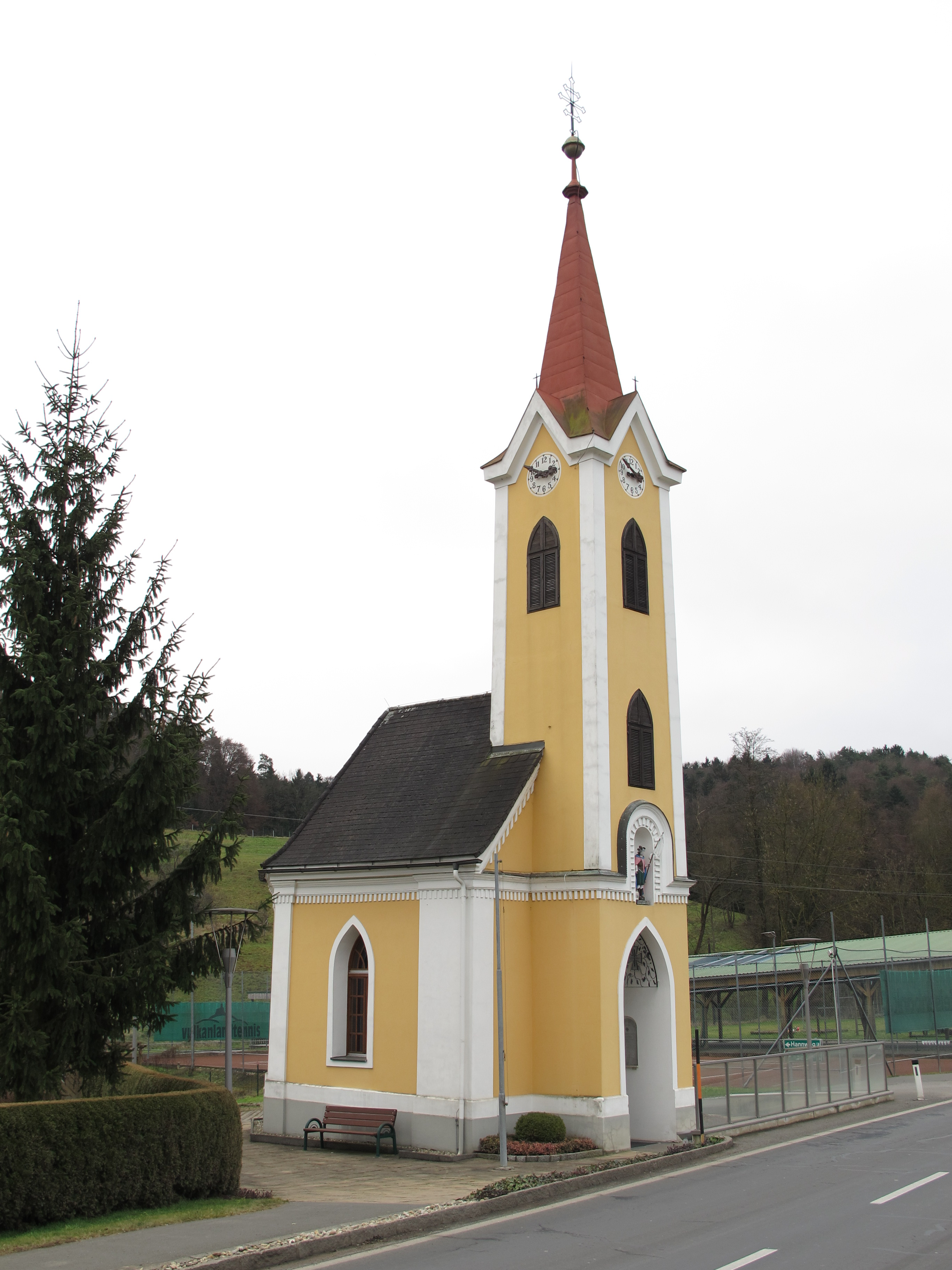 Kapelle Oberweißenbach